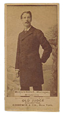 Bill McGunnigle baseball card, Old Judge Cigarettes, 1887